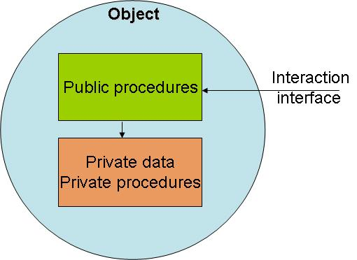 Object oriented design object